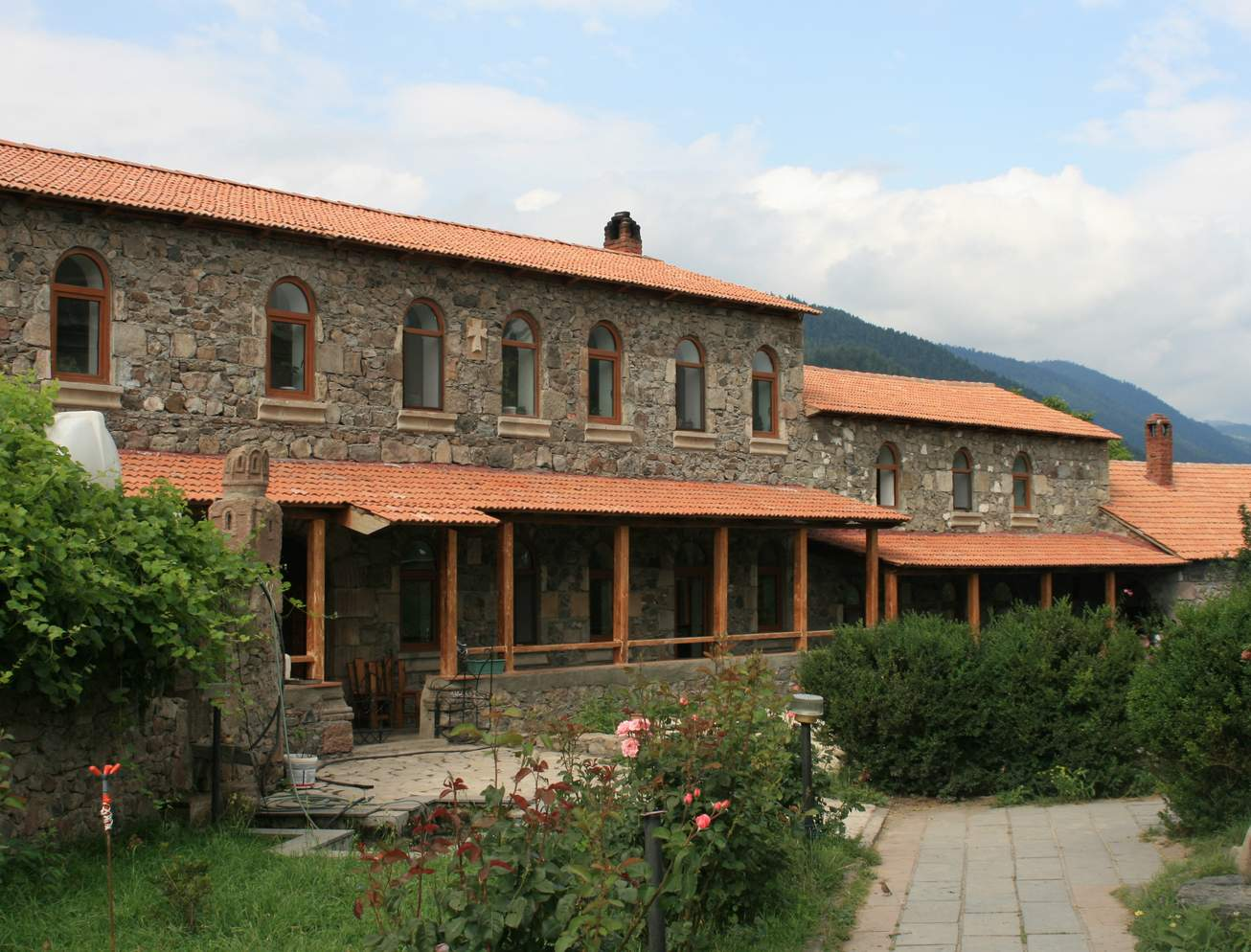 Zarzma monastery, Georgia